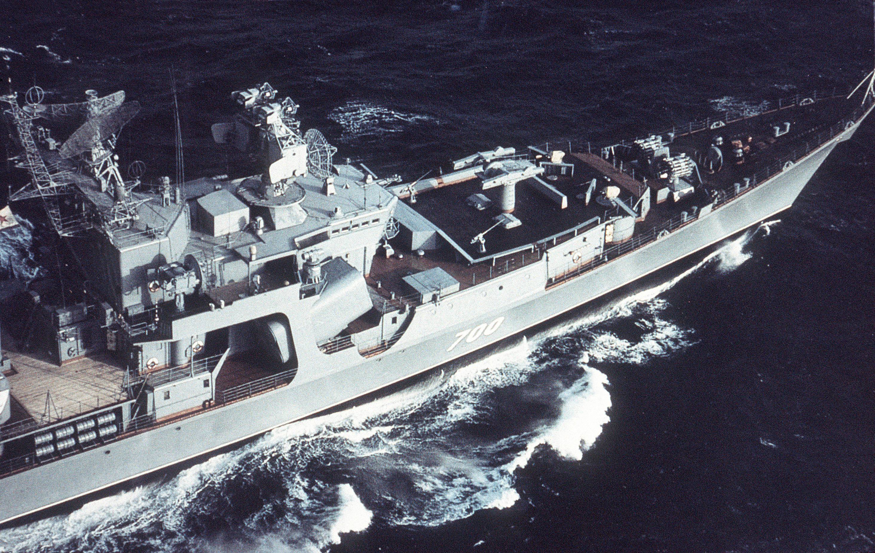 An aerial starboard close-up view of a Soviet Kara class guided missile cruiser underway. From Soviet Military Power 1985.